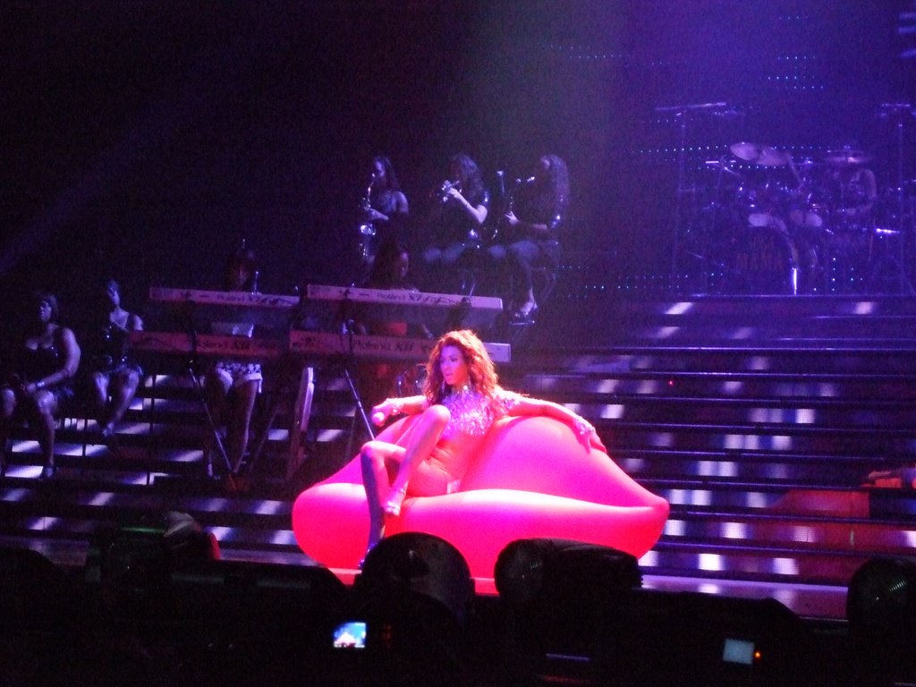 Beyoncé on tour The Beyoncé Experience in 2007.